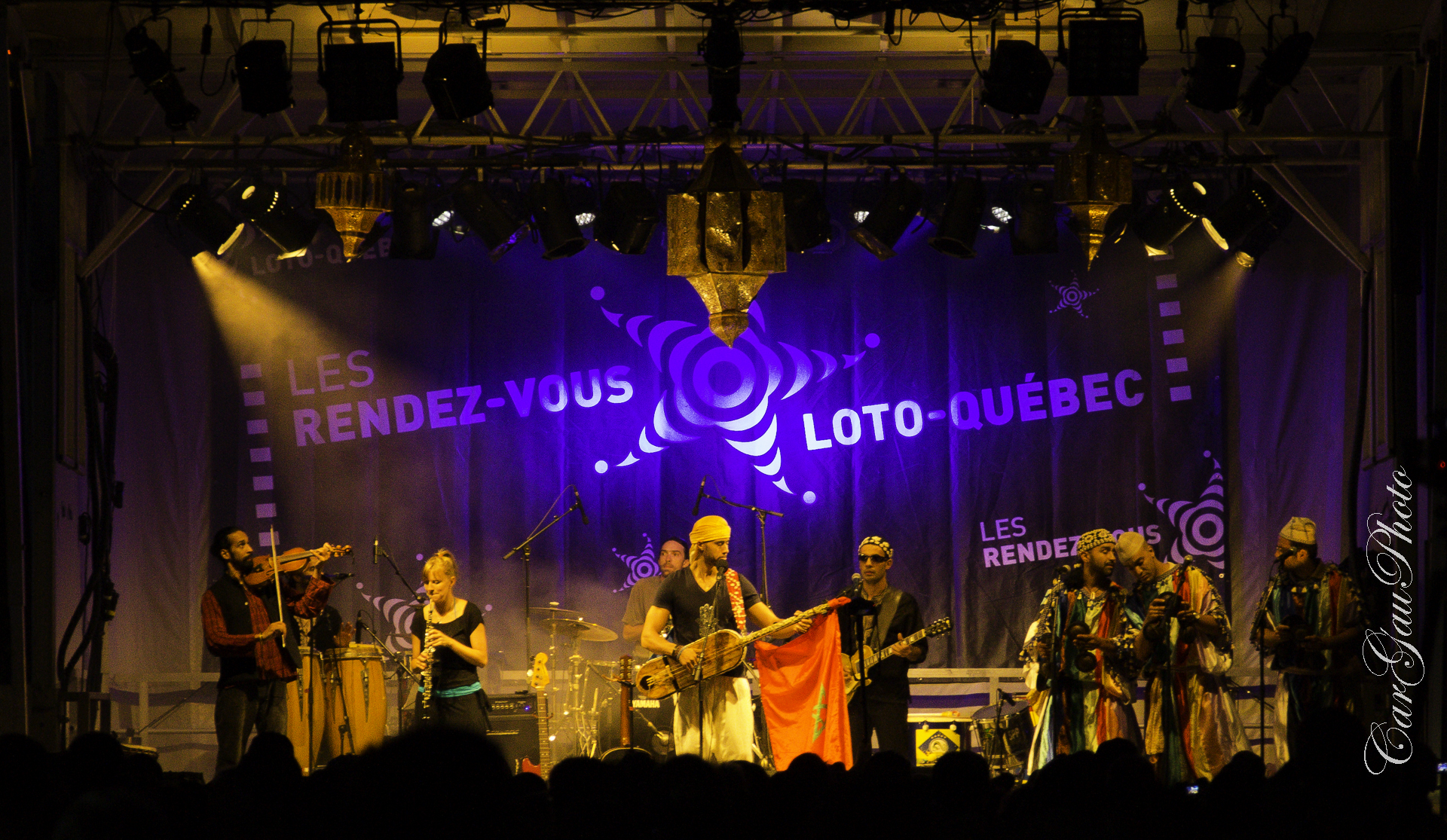 Foule 2